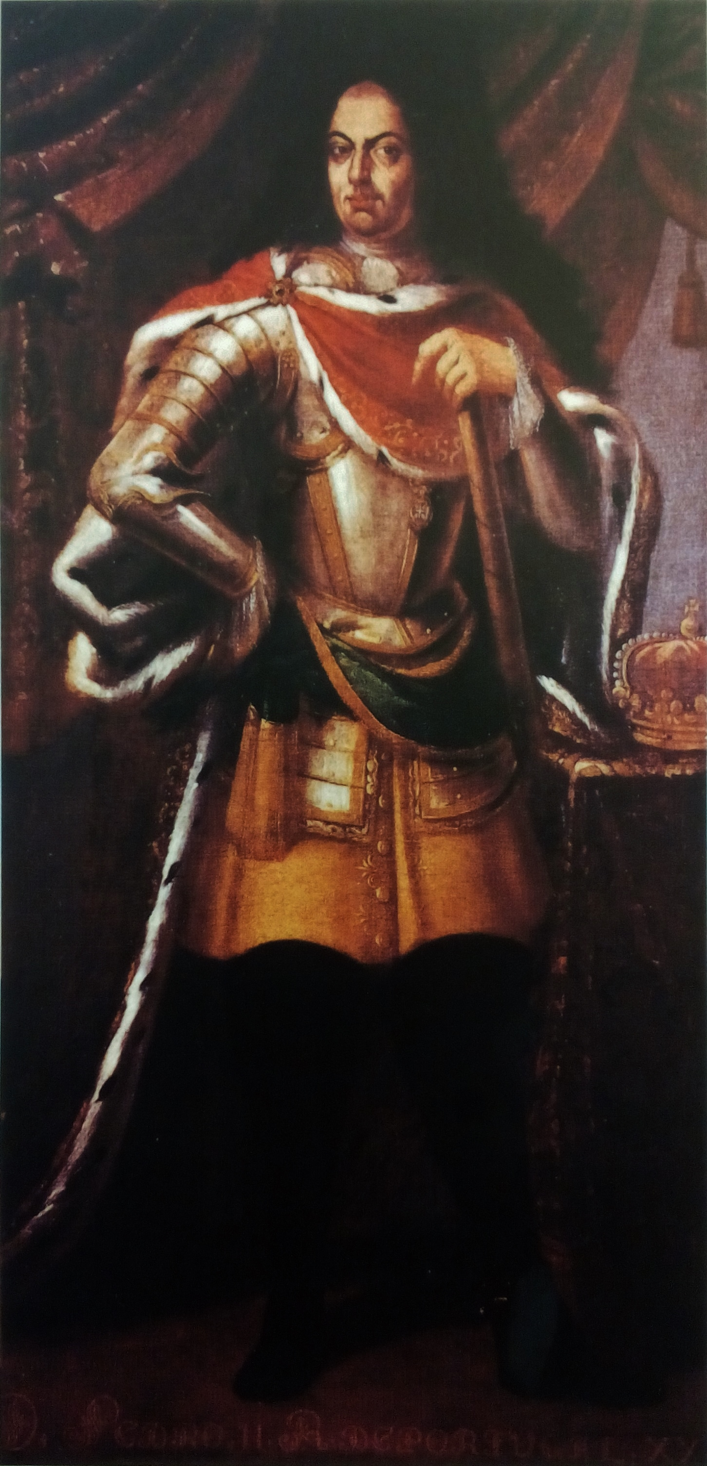 King Peter II of Portugal (1648-1706), in a 1718 painting by Henrique Ferreira.